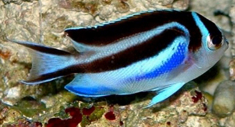 A picture of my Genicanthus bellus or Bellus Angelfish female.